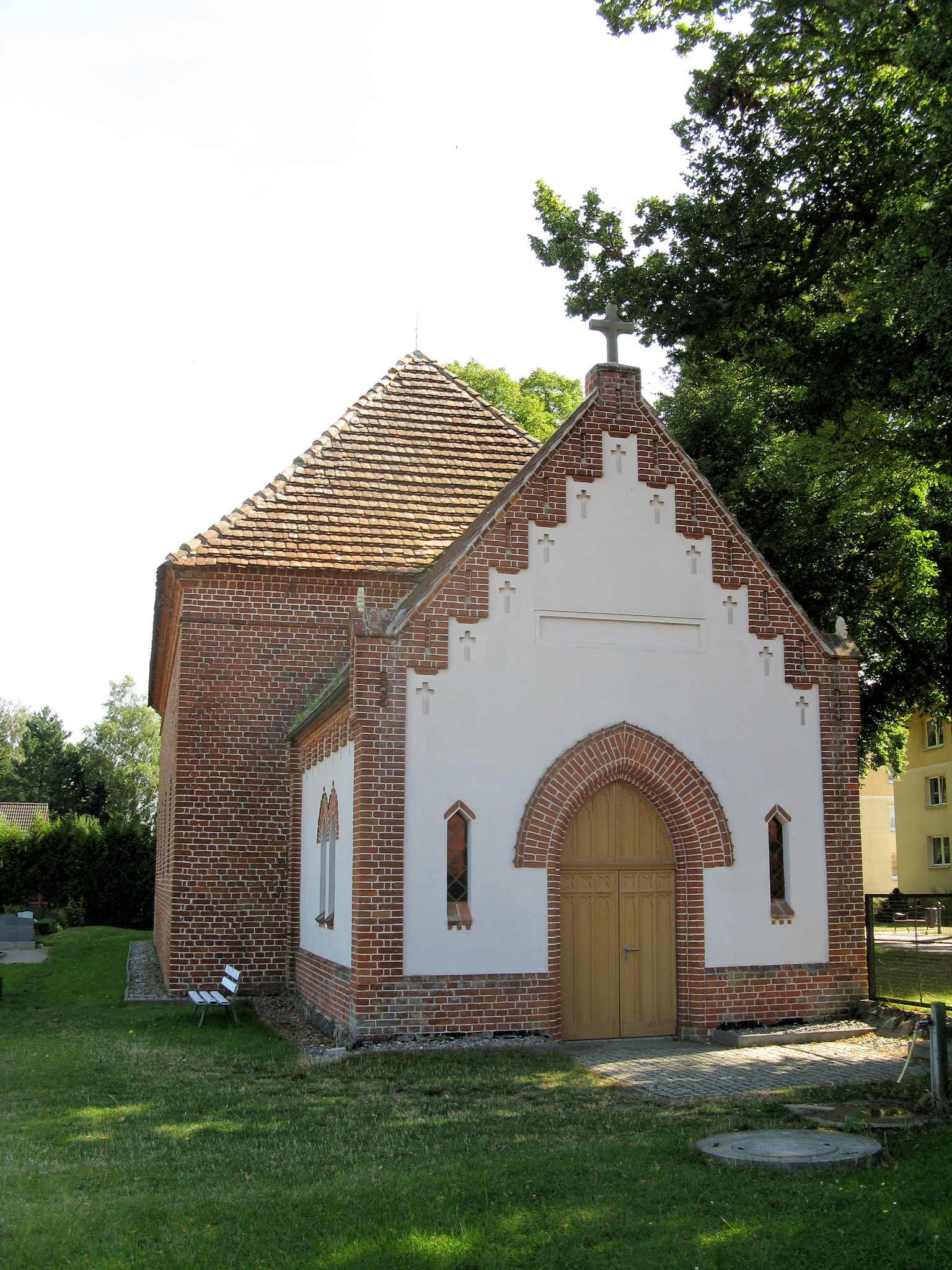 Church in Klink, disctrict Müritz, Mecklenburg-Vorpommern, Germany